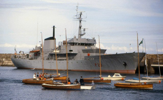 The LE "Deirdre" at Dun Loaghaire The first newbuild for the Naval Service, the LE “Deirdre” (P20) was built by the Verlome Cork Dockyard in 1972. The previous vessels had been acquired from other navies or taken up from the merchant marine. Sold to civilian owners in 2001.